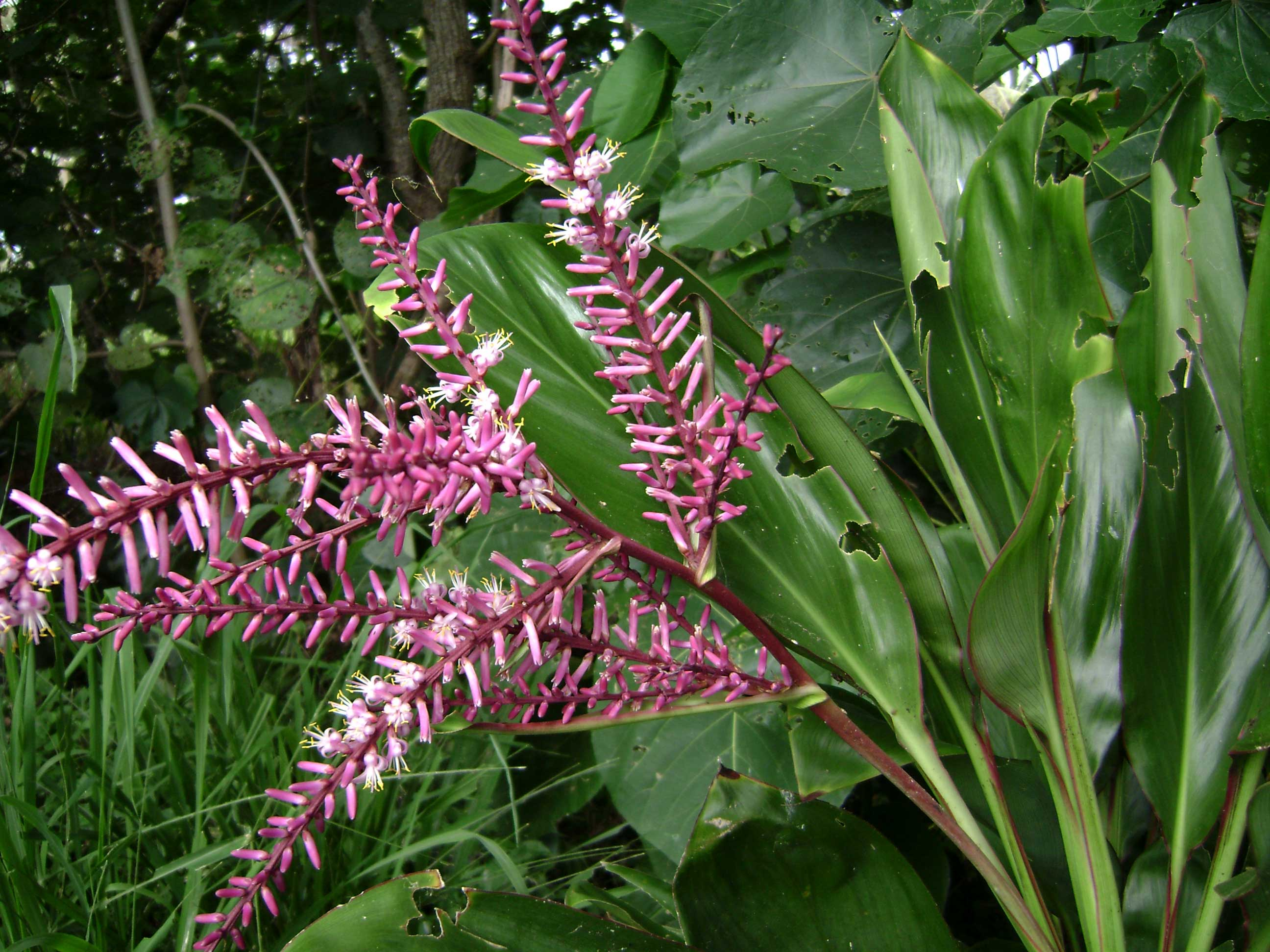 Cordyline fruticosa; flowering; (sī), common in Tonga